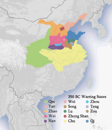 The approximate territories of dynasties in China. Drawn by Ian Kiu. Derived from China_map.png by Nat. The state of Wei(魏) (in magenta red) should not be confused with the smaller state of Wei(衛) (in pink); whose names share the same pronounciation in Standard Mandarin and therefore have identical romanizations. Not shown are the Hung Nou to the north, remnants of the state of Yut in the south, and the clans of Ba and Shu in the southwest.